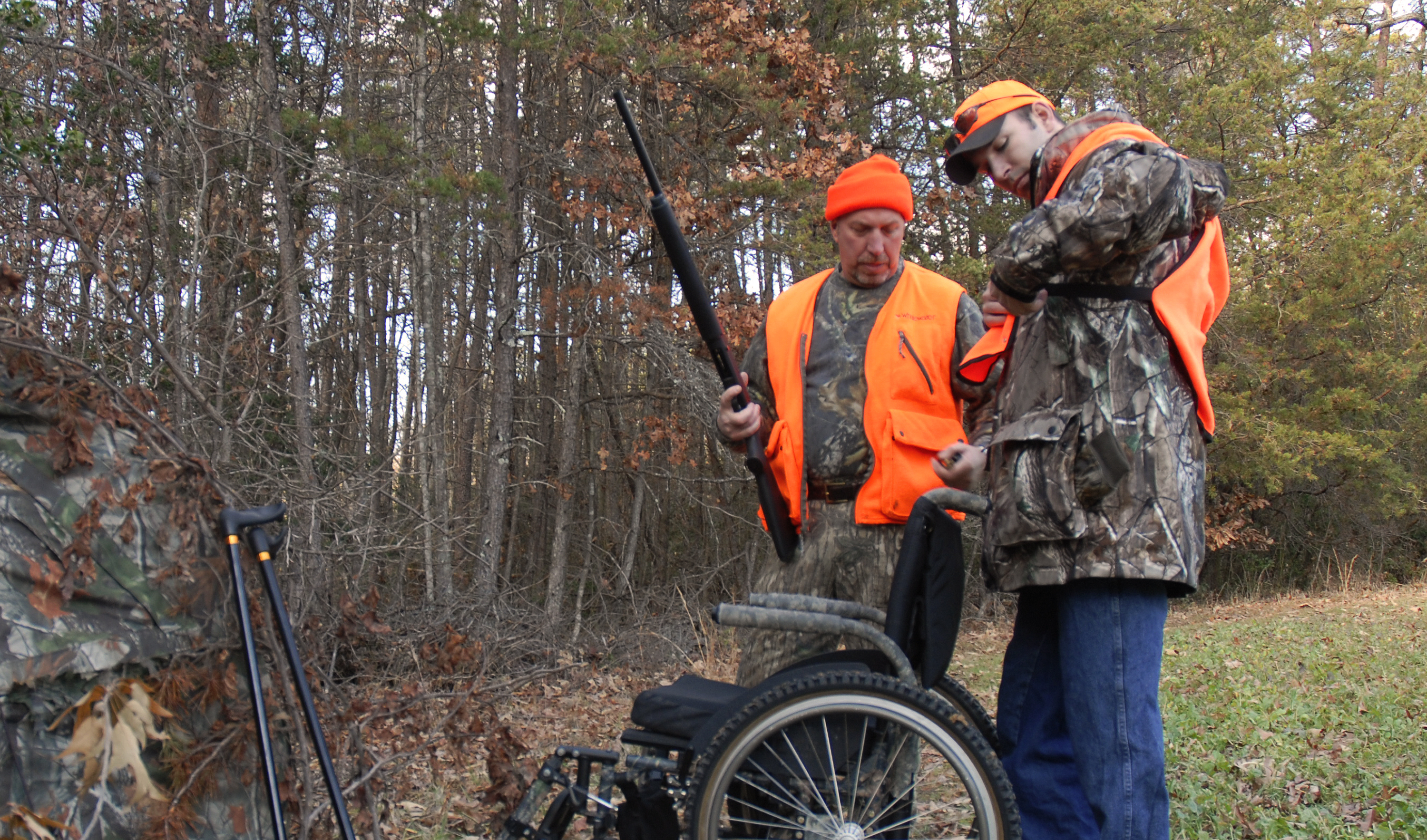 John DeBerry (left), MCB Quantico Command Visit Coordinator, and Sgt. Jace Badia adjust their �blaze orange� and check their ammo before setting up in a low blind at the beginning of the deer hunt on the ranges of MCB Quantico Monday afternoon, Dec. 17.